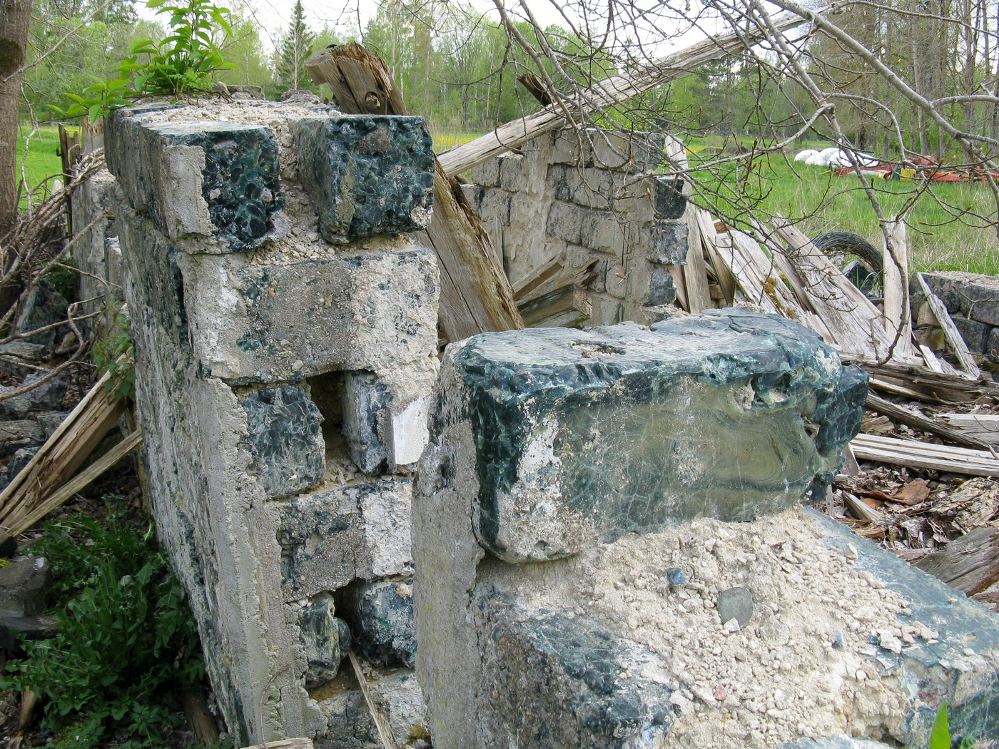 A ruined pigsty made from blocks of slag stone. The slag stone comes from a nearby iron smelting facility that has been closed for years. The building was built in the early 1900 and is located at a farm in Hasselfors, Sweden.